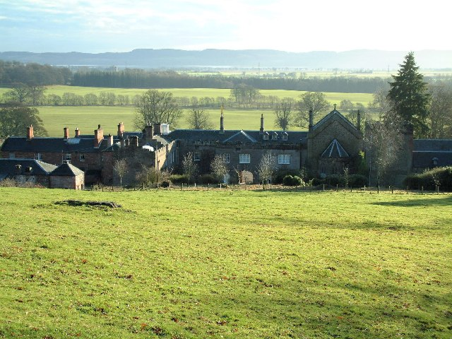 Rossie Priory. The Priory buildings are in the secluded centre of a large private estate